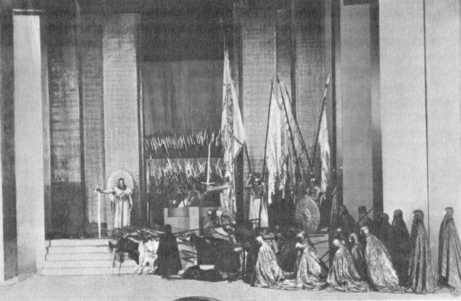 Photograph of the final scene of Edward Gordon Craig's production of Hamlet in 1911 at the Moscow Art Theatre